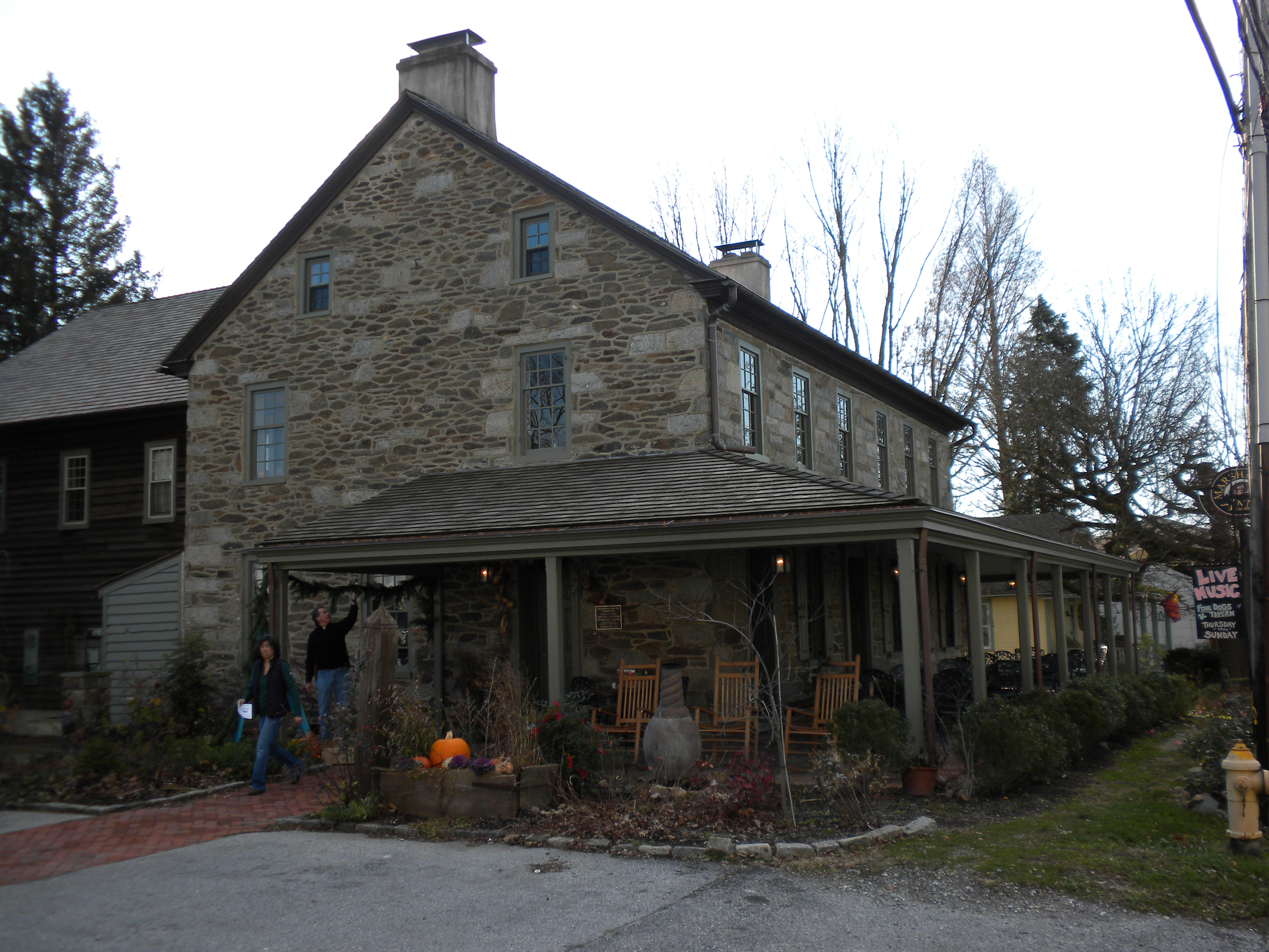 Marshallton Inn in Marshallton, Chester County, PA. On NRHP. This photot is my own work and I donate it to the public domain.